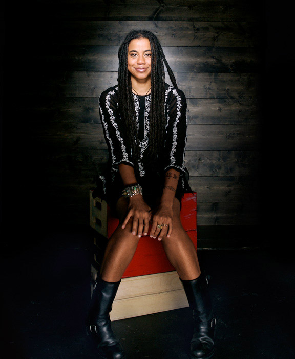 Suzan-Lori Parks photographed by Eric Schwabel at Schwabel Studio in Venice, California, 2006.